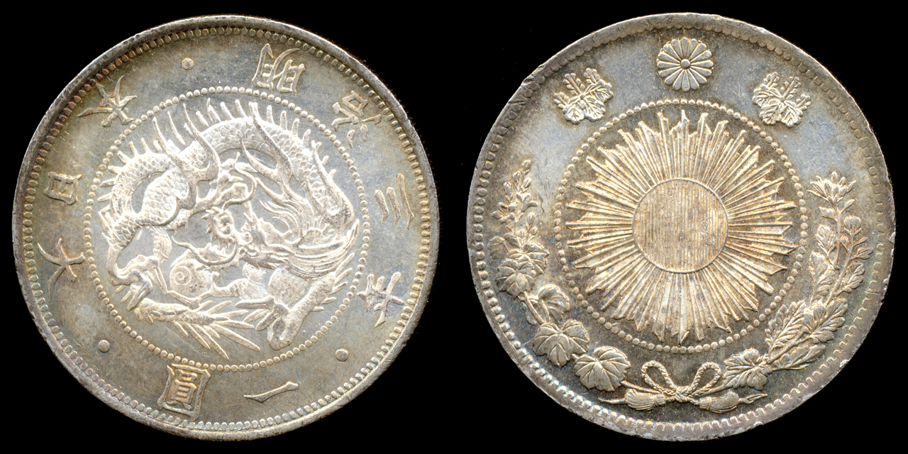 1yen-M3